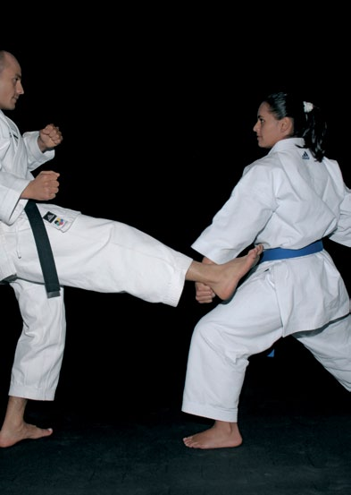 karate kata